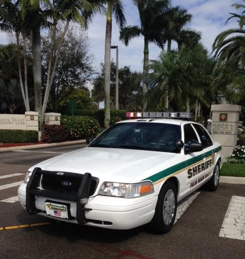 Palm Beach County Sheriff vehicle